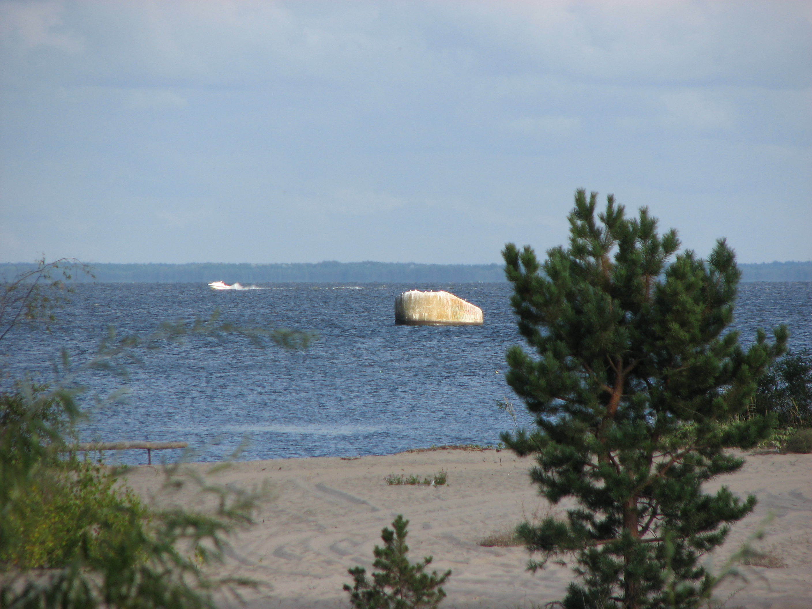 Pillbox 581 (Kyiv Fortified Region)